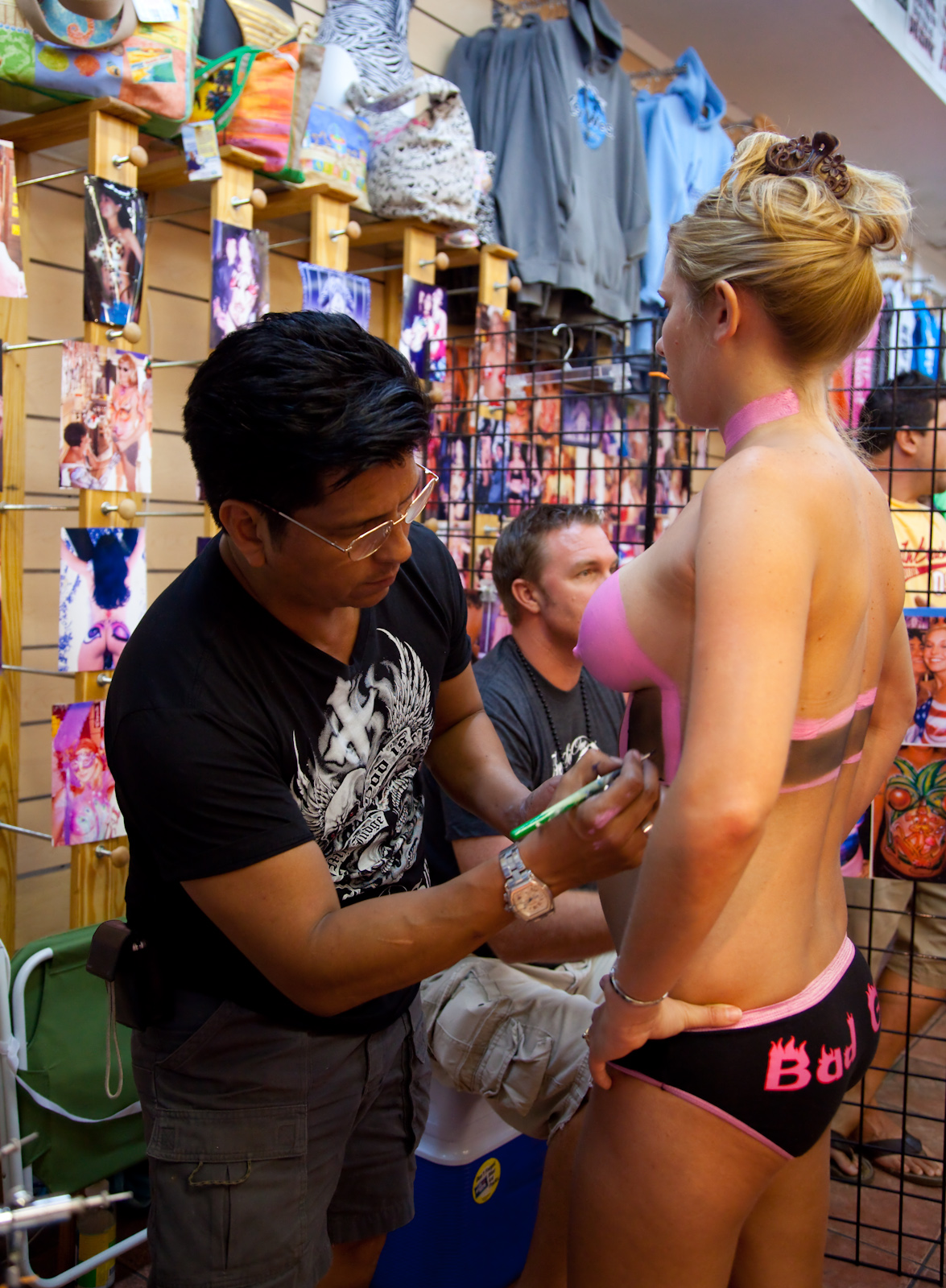 Fantasy Fest 2009, Key West, Florida, USA